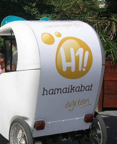 ciclotaxis called 'Txita' in Donostia